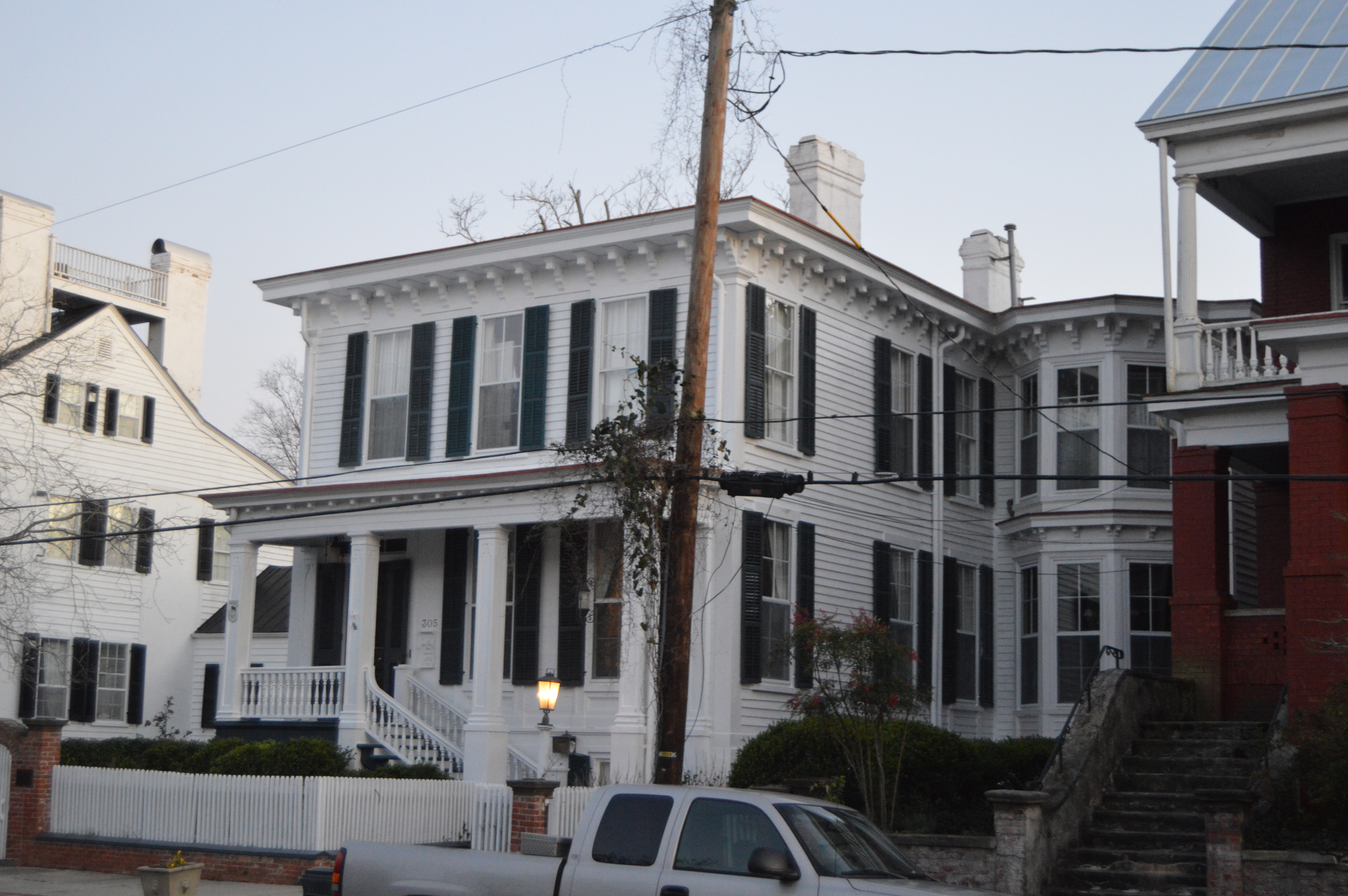 Front and western side of the Thomas Jerkins House, located at 305 Johnson Street in New Bern, North Carolina, United States. Built in 1849, it is listed on the National Register of Historic Places.